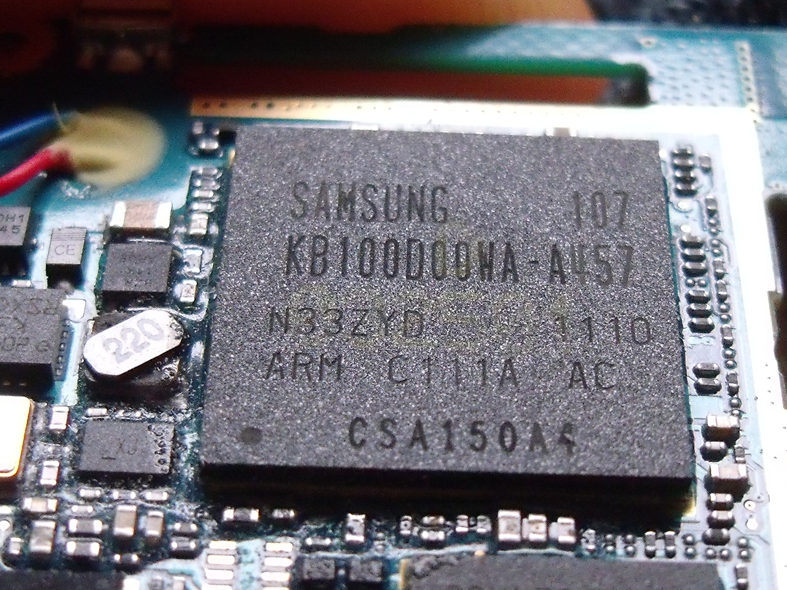 Samsung Exynos 3110 Hummingbird (1 GHz, Singlecore) CPU of the Samsung Nexus S (GT-I9023)